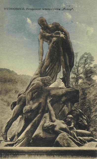 The Deluge Fountain in Bydgoszcz. It was established in 1897-1904 by Prussian authorities according to design by Ferdinand Lepcke. The fountain was melted into war material in 1943, during the German occupation of Poland.[1]